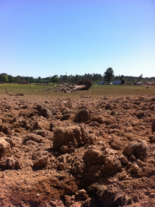 Extreme ground scouring left behind by a violent EF5 tornado that tracked through Neshoba, Kemper, Winston, and Noxubee counties in Mississippi during the afternoon of April 27, 2011. A large, debarked and defoliated tree that was torn from the ground can be seen in the background.